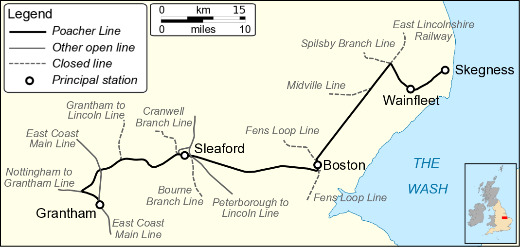 Map of the Poacher Line between Grantham and Skegness, Lincolnshire in the East of England. Map data taken from Open Street Maps.